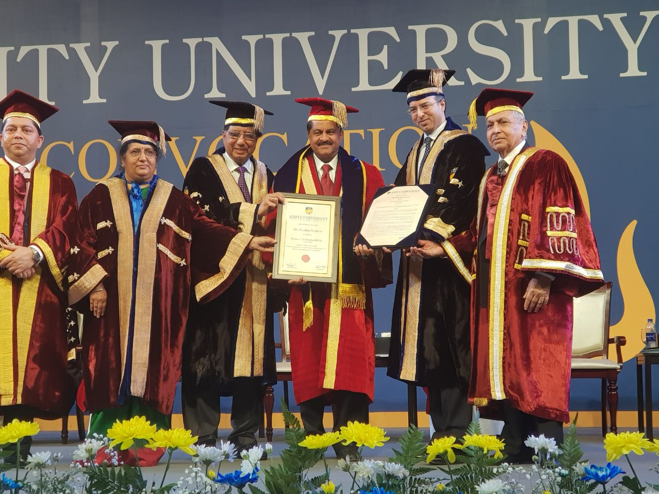 Thumbay Moideen being conferred doctorate by Amity University, Dubai